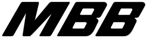 Company logo of the German aeronautics company Messerschmitt-Bölkow-Blohm, which was formed in 1968/69 and was taken over by DASA in 1989, which itself became part of EADS in 2000.